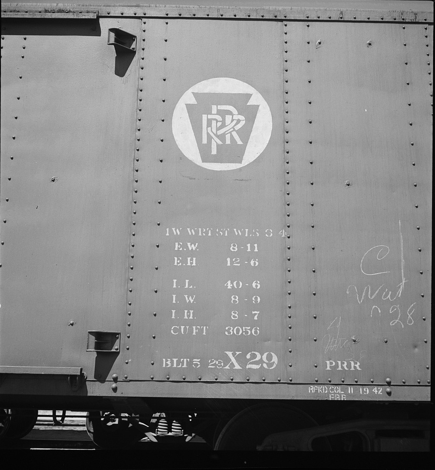 (Cropped by the uploader) Title: San Bernardino, California. A Pennsylvania Railroad freight car, built in June 1929, showing the exterior width, the exterior height, the interior length, the interior width, the interior height, and cubic foot volume Creator(s): Delano, Jack, photographer Date Created/Published: 1943 Mar. Medium: 1 negative : nitrate ; 2 1/4 x 2 1/4 inches or smaller. Reproduction Number: LC-USW3-021541-E (b&w film nitrate neg.) Rights Advisory: No known restrictions. For information, see U.S. Farm Security Administration/Office of War Information Black & White Photographs( Call Number: LC-USW3- 021541-E [P&P] Other Number: J 5213 Repository: Library of Congress Prints and Photographs Division Washington, D.C. 20540 Notes: Title and other information from caption card. LOT 0791 (Location of corresponding print.) Transfer; United States. Office of War Information. Overseas Picture Division. Washington Division; 1944. More information about the FSA/OWI Collection is available at Film copy on SIS roll 13, frame 1115. Subjects: United States--California--San Bernardino County--San Bernardino. Format: Nitrate negatives. Collections: Farm Security Administration/Office of War Information Black-and-White Negatives Part of: Farm Security Administration - Office of War Information Photograph Collection (Library of Congress) Bookmark This Record